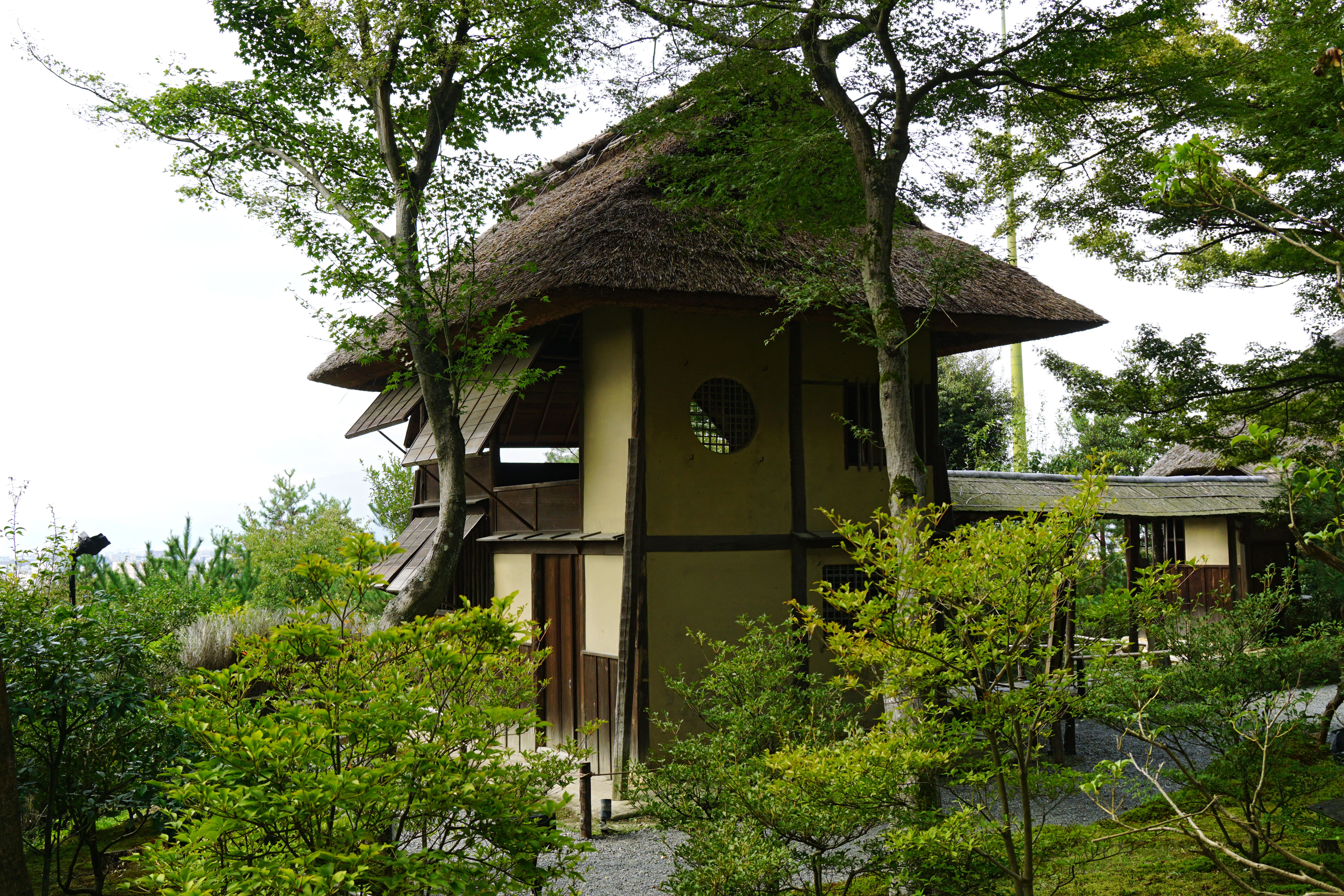 Kōdai-ji in Higashiyama-ku, Kyoto, Kyoto prefecture, Japan